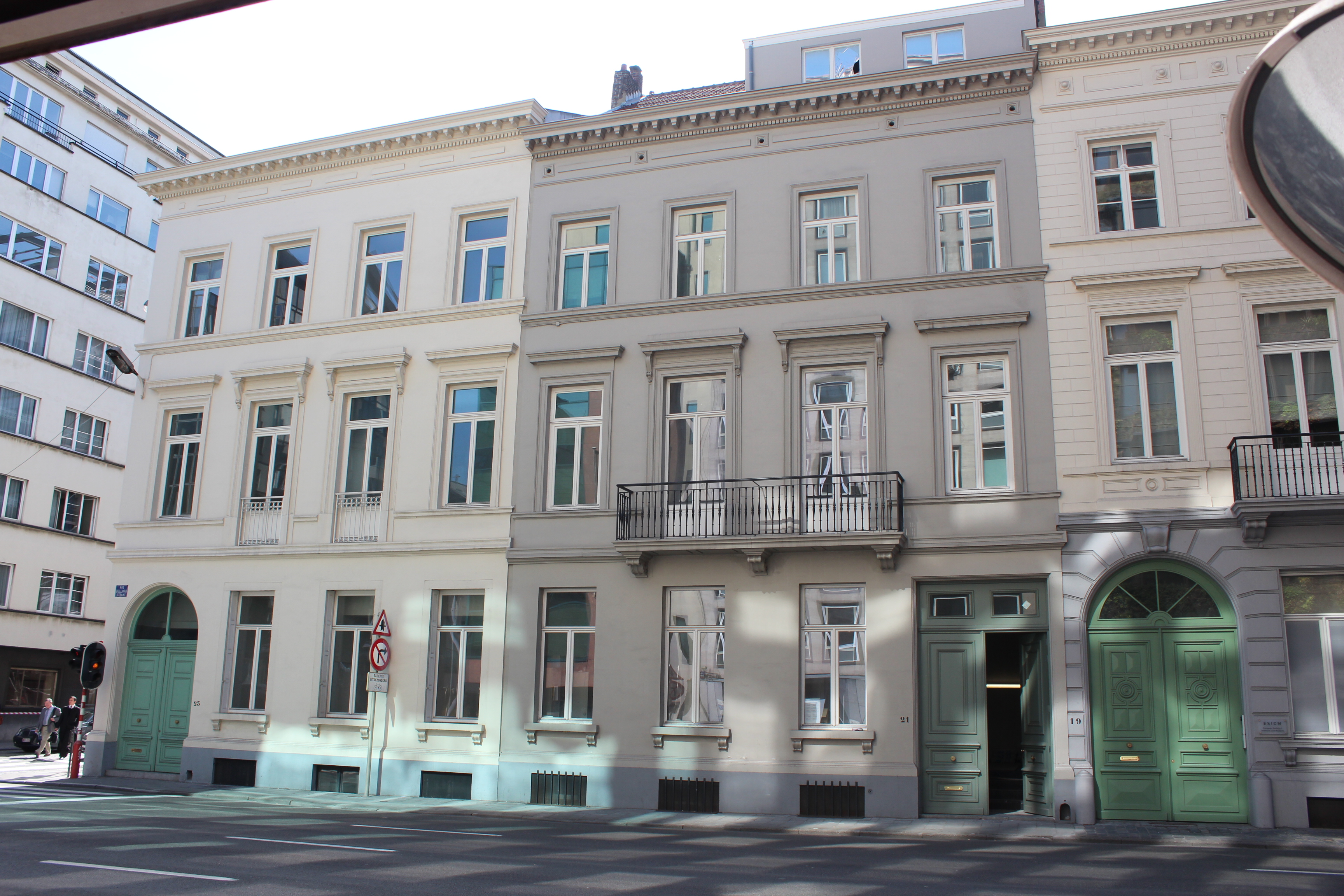 rue Belliardstraat19-23 Brussels